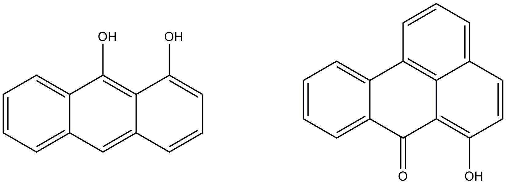 structures of antraquinols